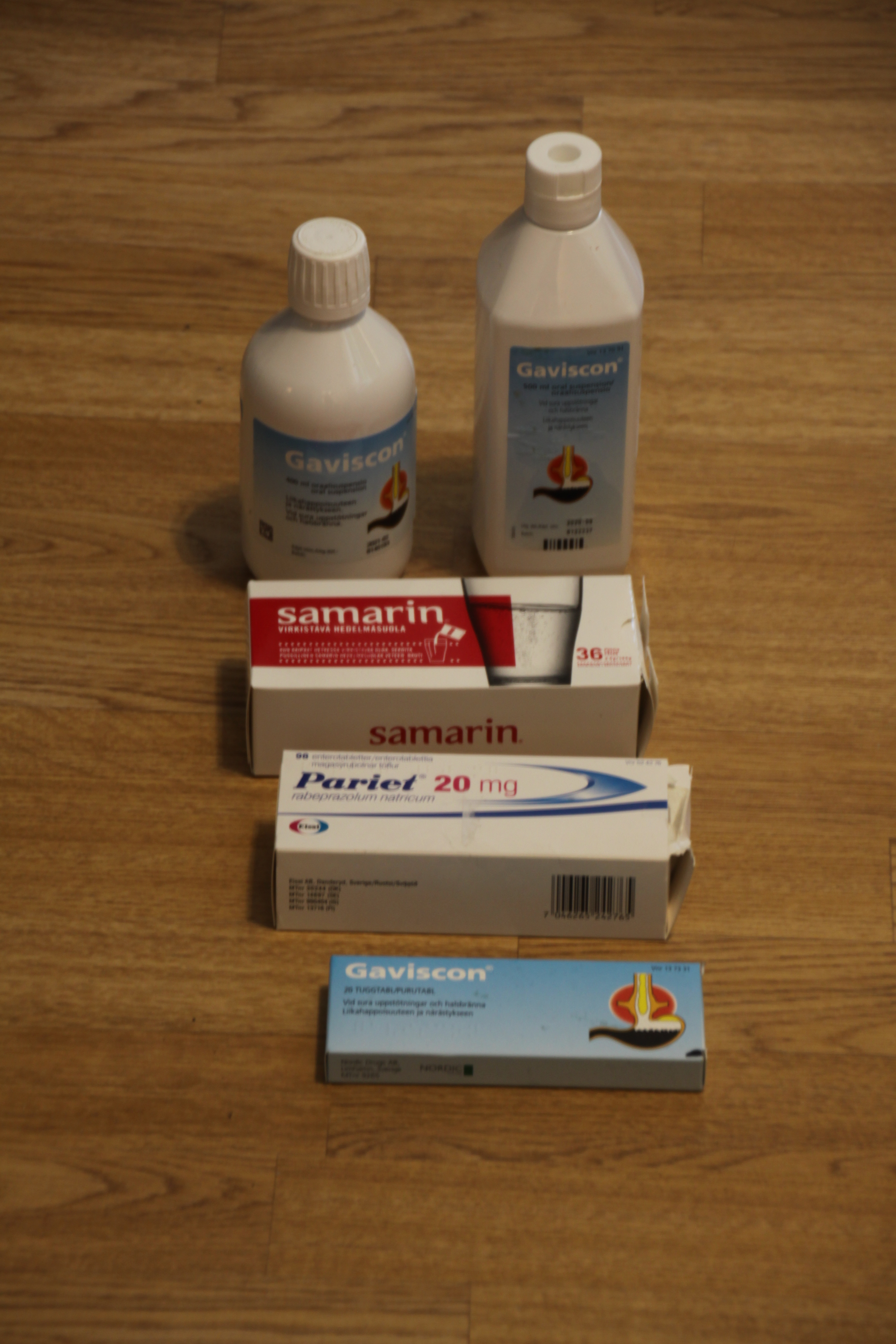 Anti-heartburn medicines.